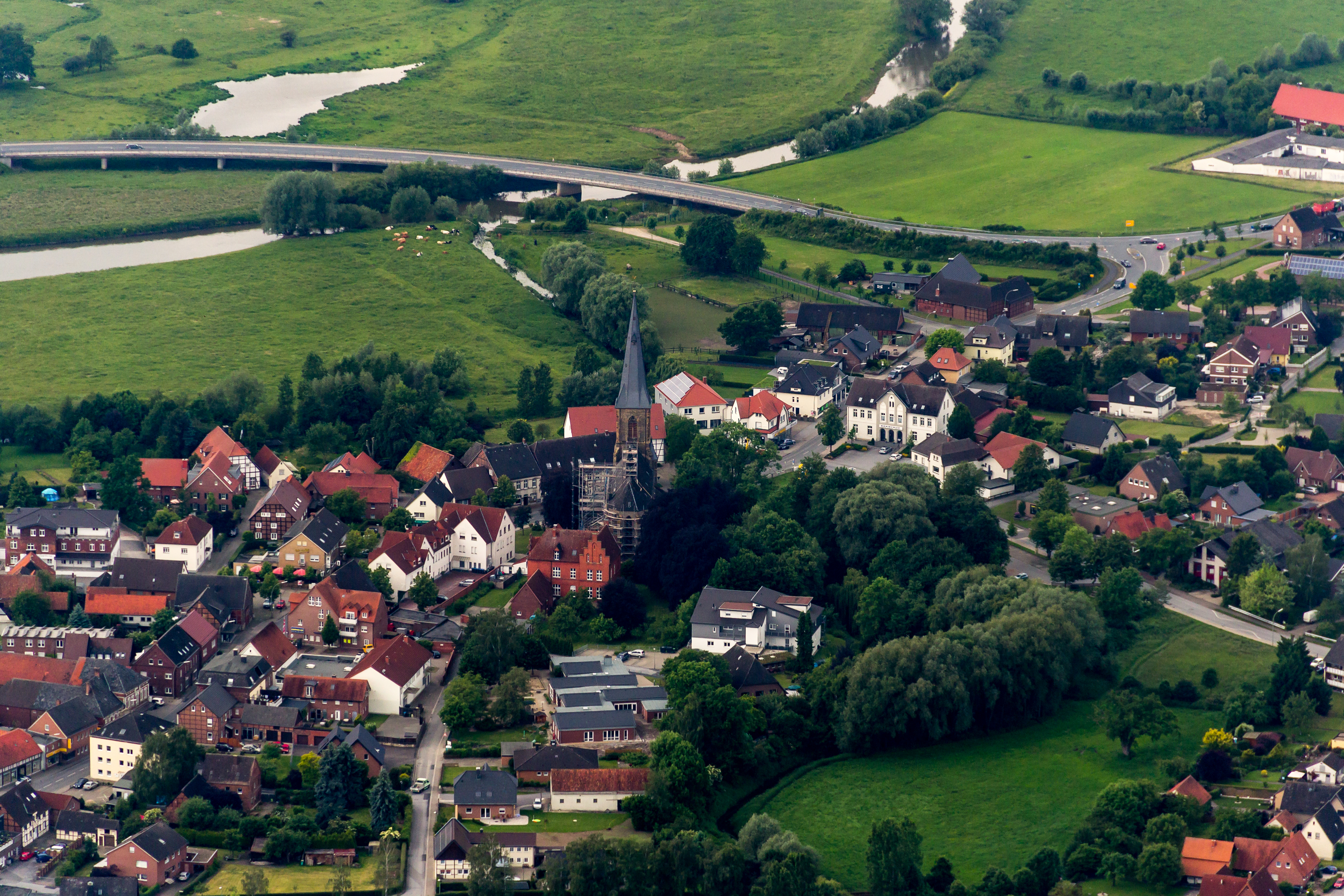 Lippborg, Lippetal, North Rhine-Westphalia, Germany